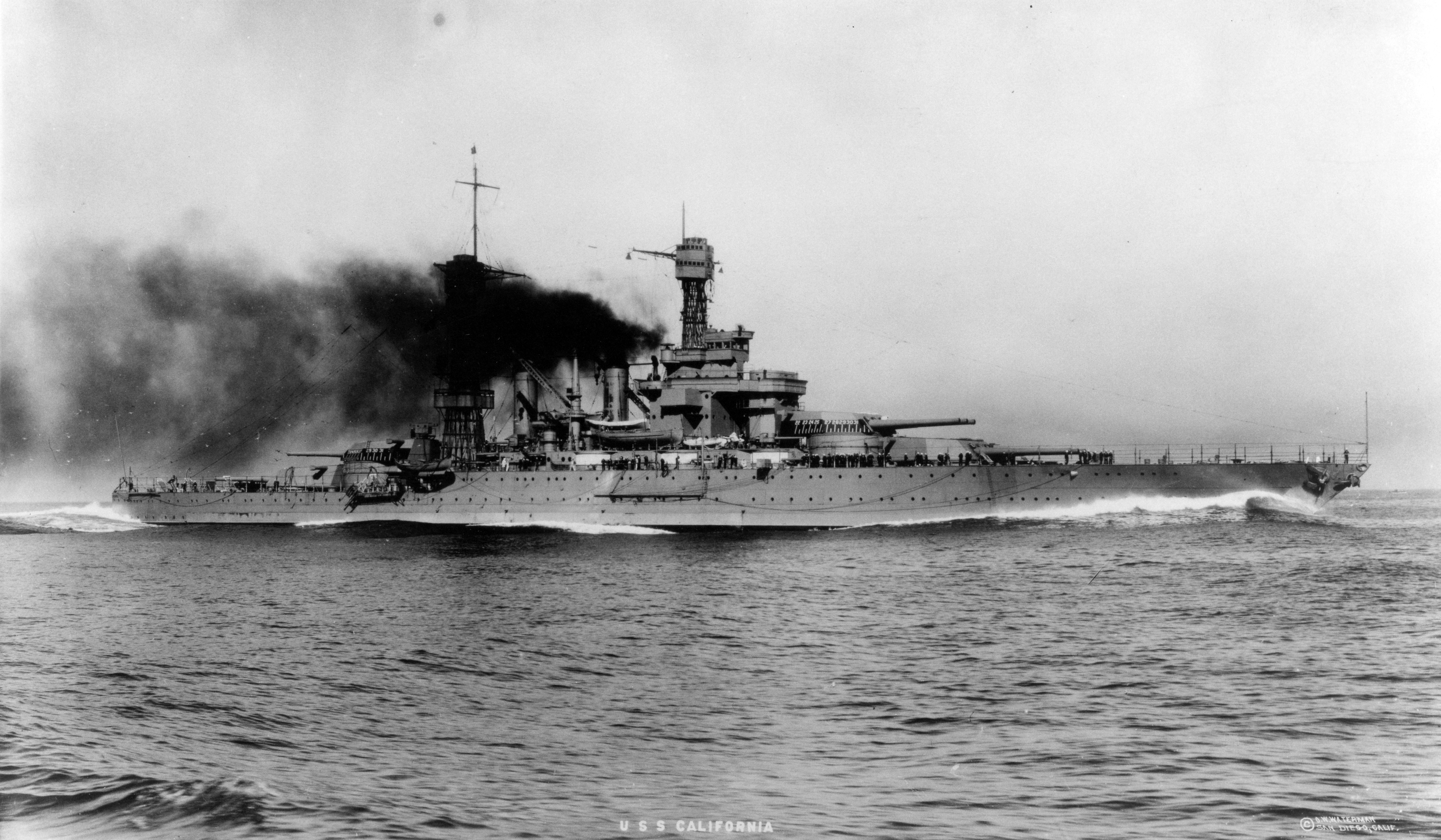 Steaming at high speed, circa 1921. Photographed by O.W. Waterman, San Diego, California. Collection of LCdr. Abraham DeSomer, donated by Myles DeSomer, 1975. U.S. Naval History and Heritage Command Photograph.